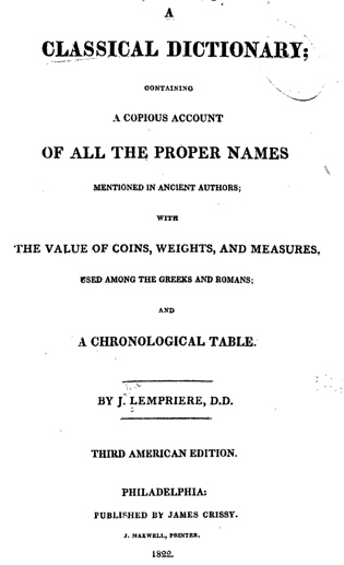 Front page of the 1822 American edition of the Bibliotheca Classica